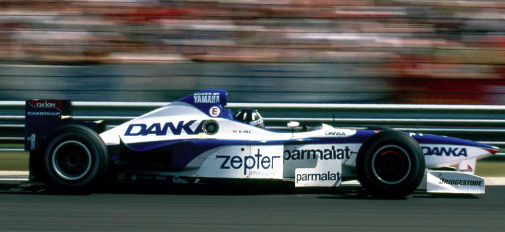 Damon Hill in a Arrows Yamaha A18 car leading the 1997 Hungarian Formula One Grand Prix.